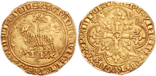 France, Royal. Charles VI, the Well-Loved, or the Mad (le Bien-Aimé, ou le Fol). 1380-1422. AV Agnel d'or (23mm, 2.51 gm, 5h). Paris mint. First emission, struck May-October 1417. +AGn´ (double annulet) DEI (double annulet) QVI TOLL´ (annulet) PECAT[´] (annulet) mV[´]DI (double annulet) mISE´ (annulet) nOBIS, Agnus Dei standing left, head right; behind, banner on trefoil cross, kF:-RX beneath Lamb; all within ornate polylobe; pellet under 18th letter +XPC´ (star) VINCIT (star) XPC´ (star) REGNAT (star) XPC´ (star) INPERAT (Ns retrograde), cross feuillue pierced by star within central quadrilobe; lis in quarters; all within barbed quadrilobe with seven lis and one trilobe in external voids; pellet under eighteenth letter. Duplessy -; Ciani 498; cf. Friedberg 290. Good VF, strong strike.